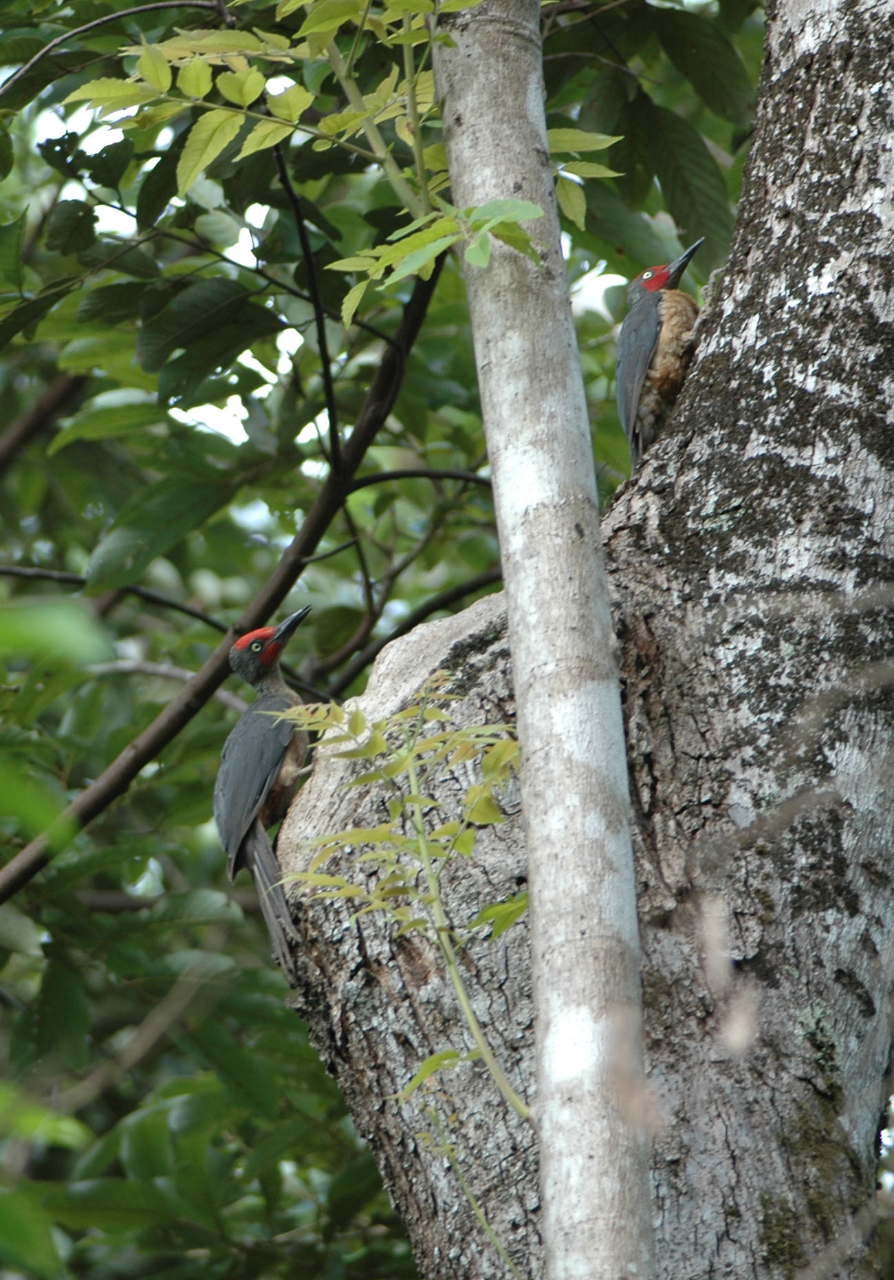 Ashy Woodpeckers (Mulleripicus fulvus) on a tree trunk. Tangkoko, Sulawesi, August 2008